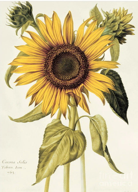 Helianthus annuus - Nicolas Robert - Watercolour on vellum